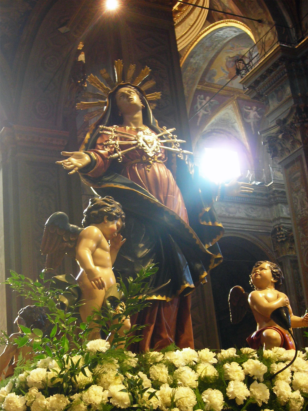 L'Addolorata, Filippo Martinengo